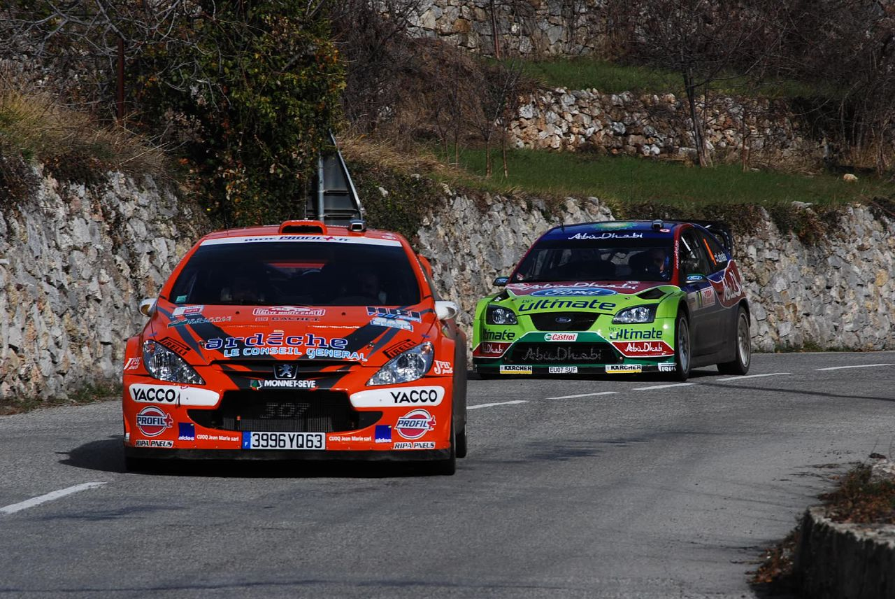 Jean-Marie Cuoq driving his Peugeot 307 WRC and Jari-Matti Latvala driving his Ford Focus RS WRC 07 on a road section during the 2008 Monte Carlo Rally.